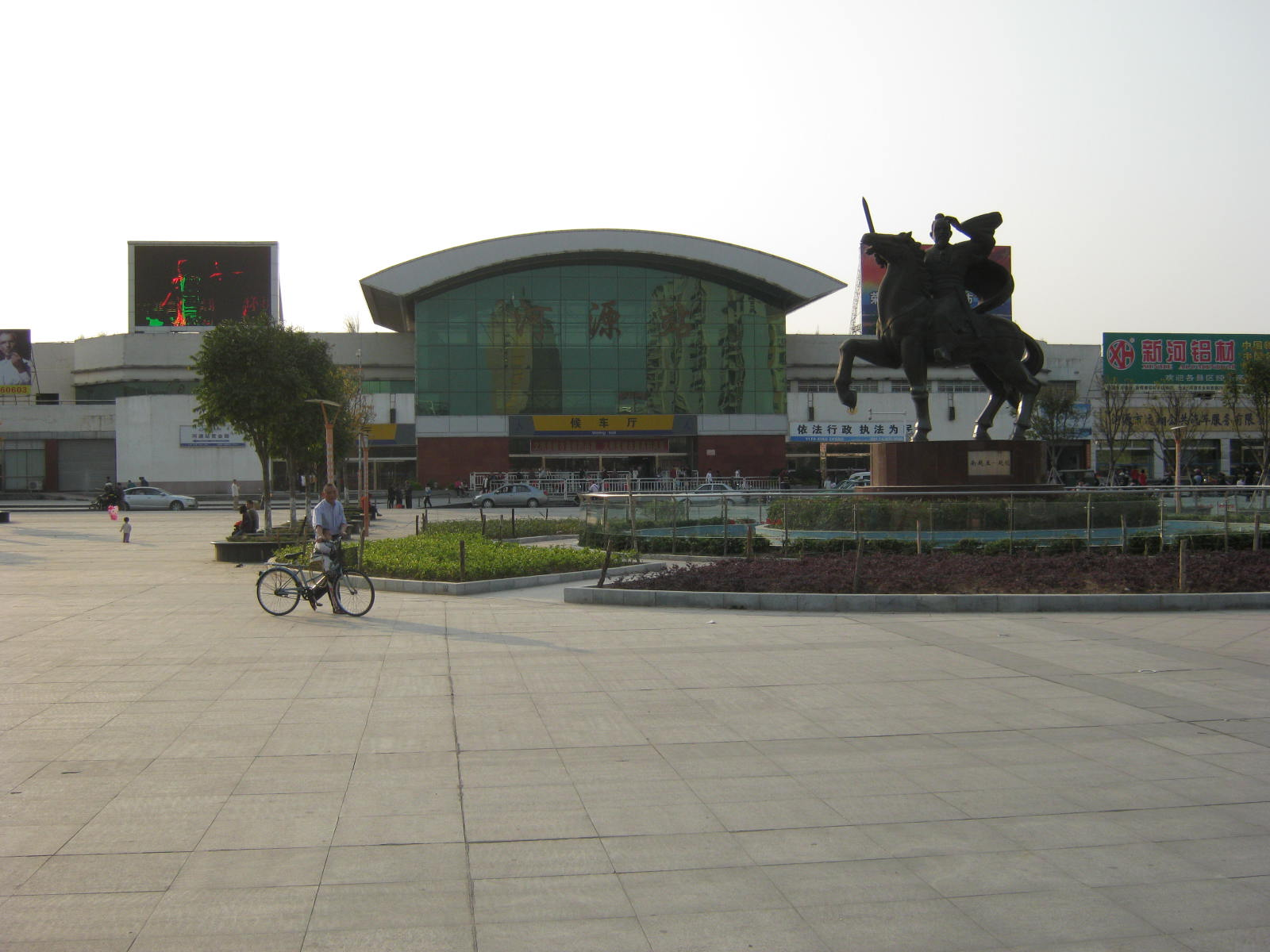 HeYuan Train Station